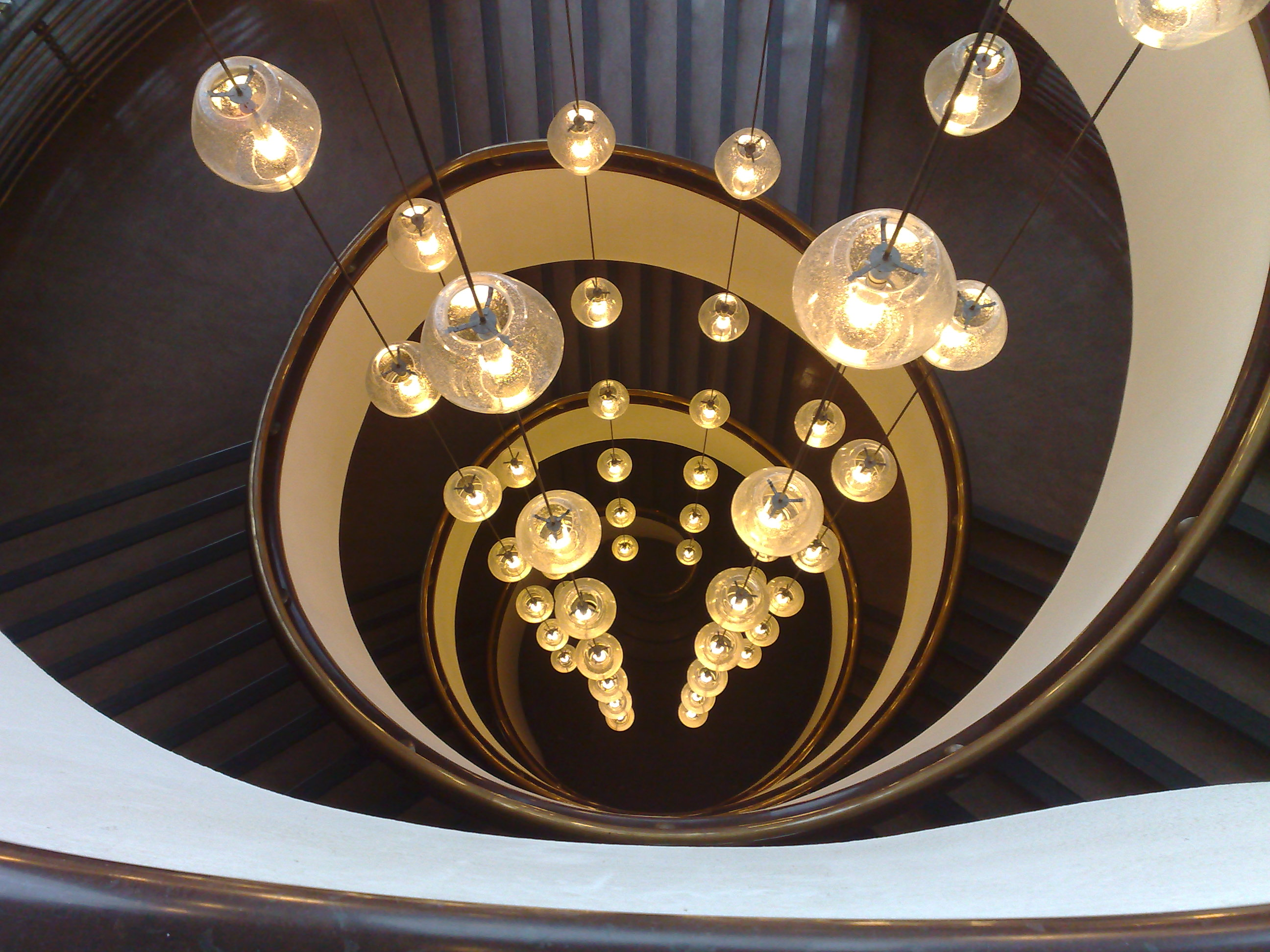 Stair case, location Museumpark(Hogeschool Rotterdam), Rotterdam, the Netherlands